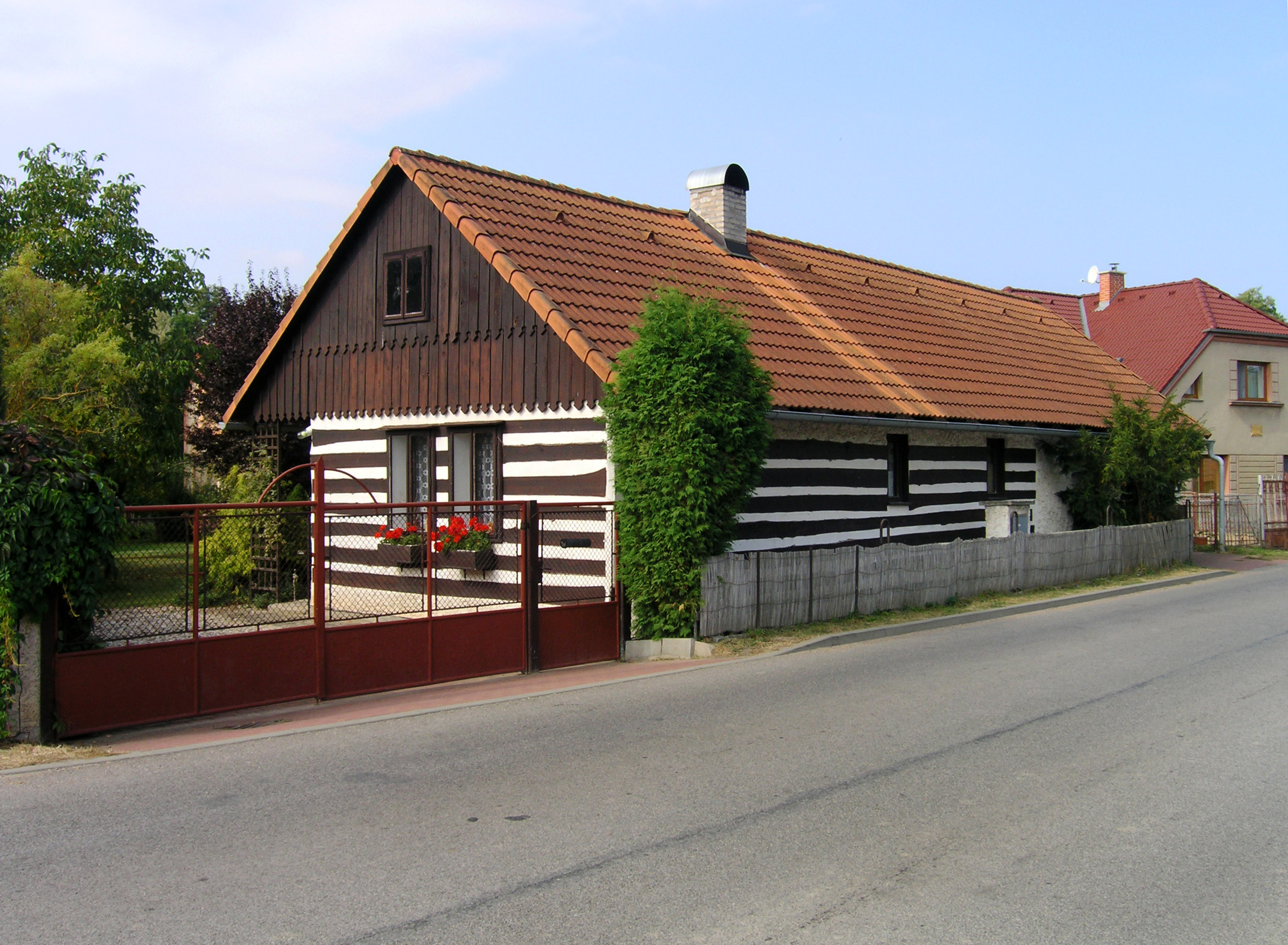 West part of Homyle, part of Boharyně village, Czech Republic